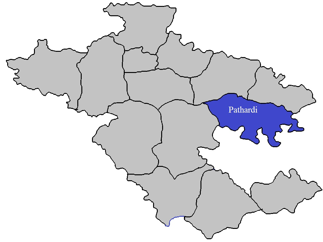 Pathardi Tehsil in Ahmednagar District